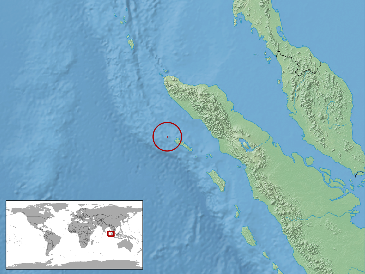 geographic distribution of Calamaria lautensis (Native: Indonesia (Sumatera))